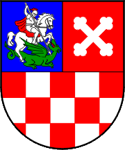 Official coat of arms of the Bjelovar-Bilogora county in Croatia, made from gif version at by Željko Heimer